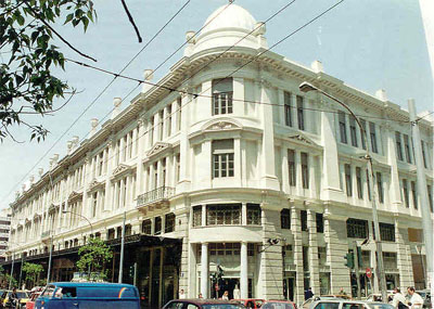 arsakeio thess